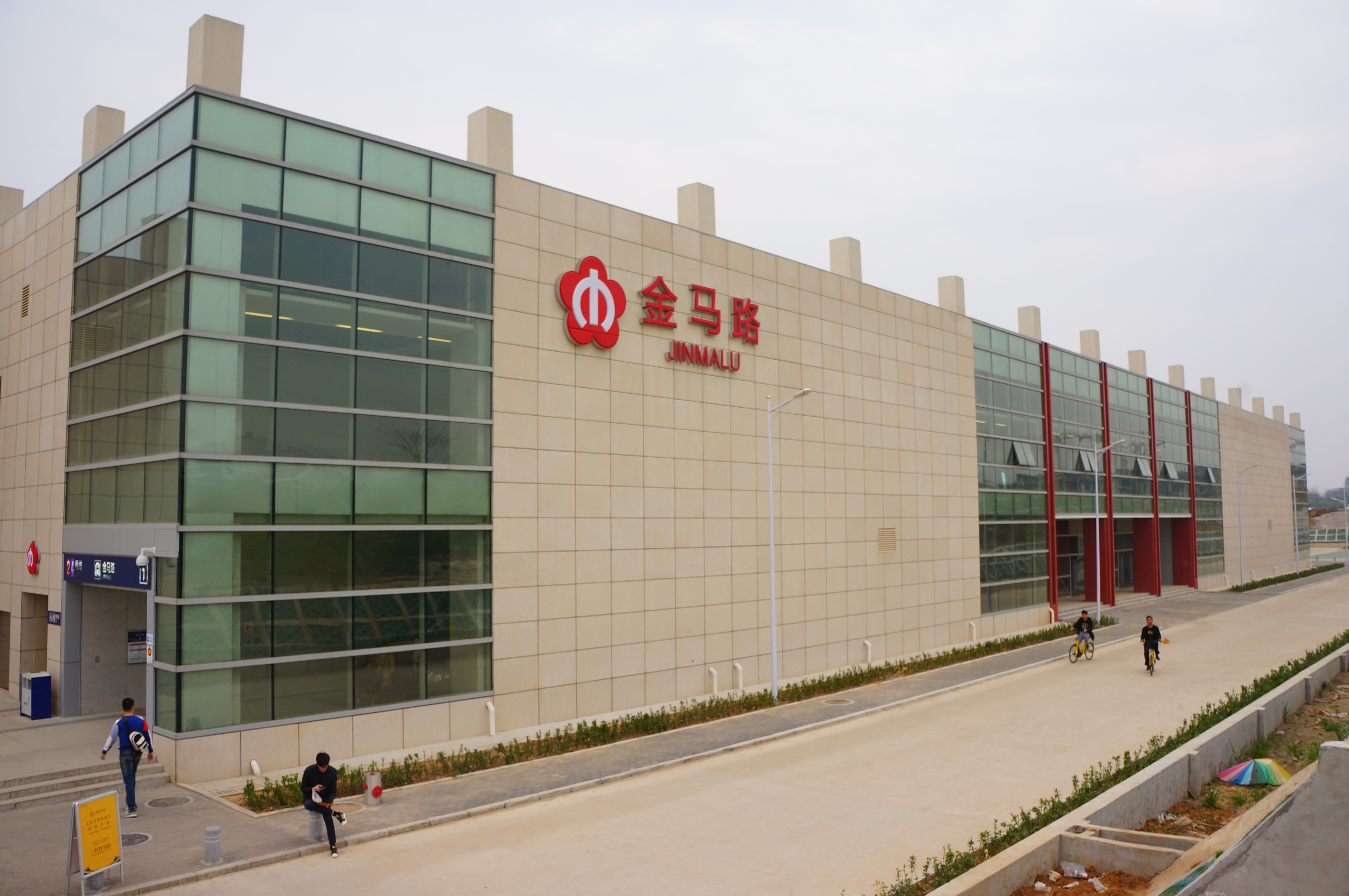 201704 Jinmalu Station